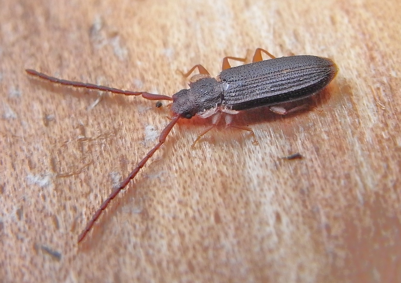 Uleiota planata from Hungary, near Lenti, at 2010-05-07 Ricoh R8